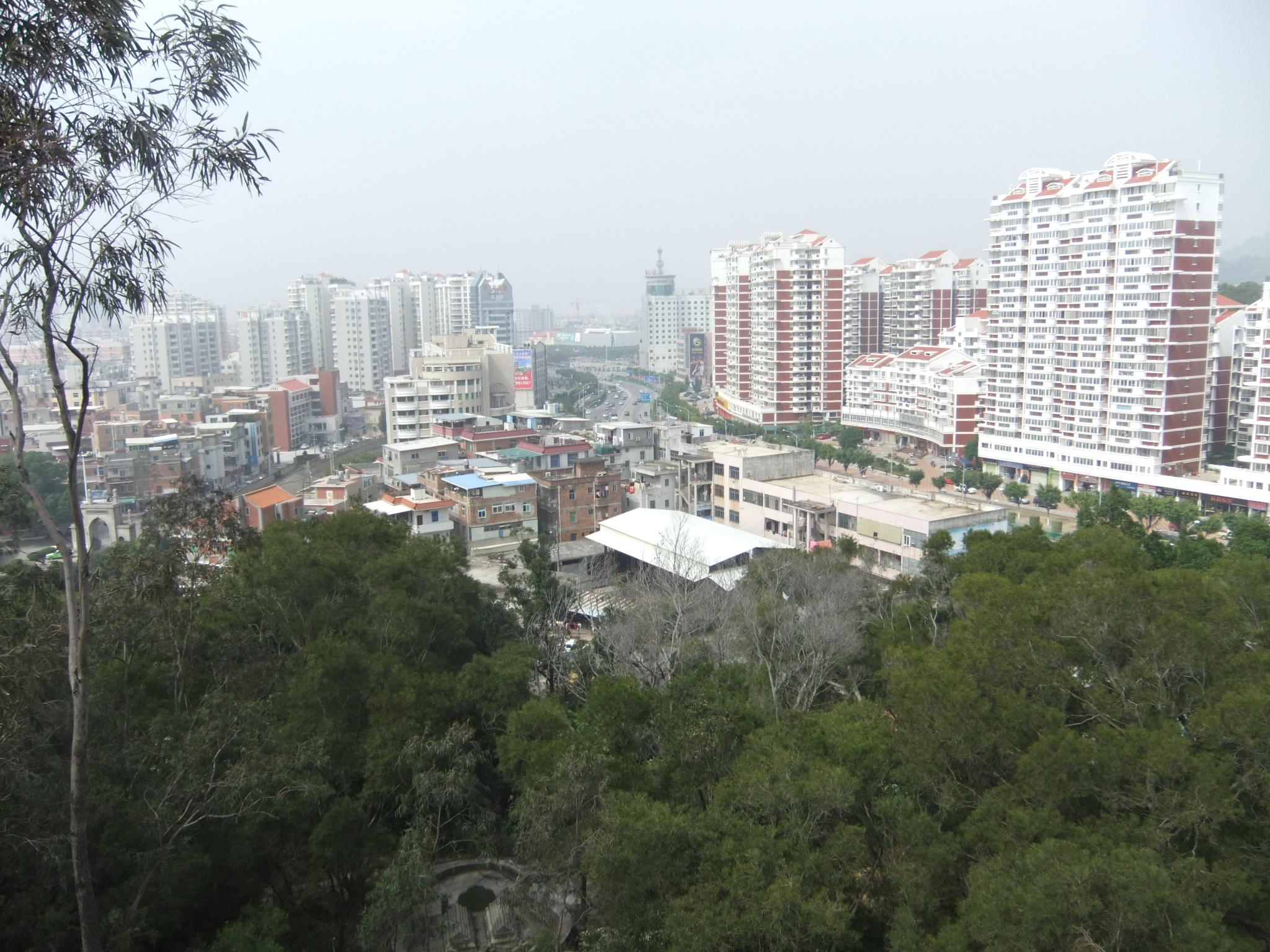 Lingshan Islamic Cemetery (Lingshan Park) in Quanzhou..